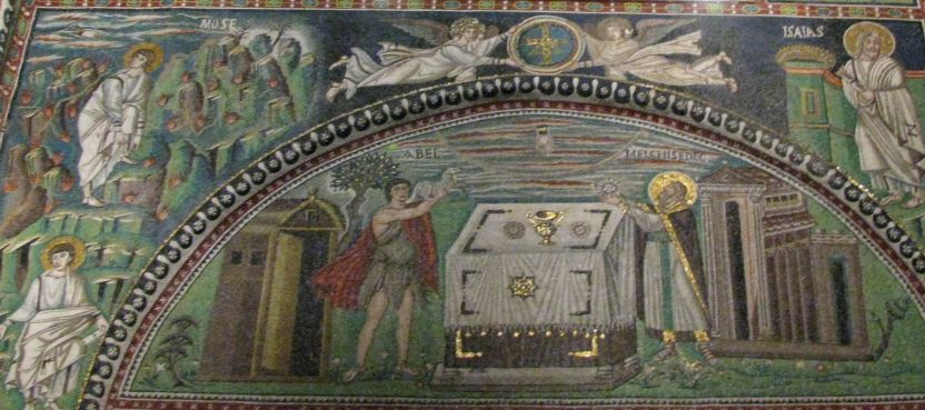 Sacrifice of Abel and Melchizedek (lunette above the triforium); Isaiah (in the spandrel).Mosaic in basilica of San Vitale in Ravenna.